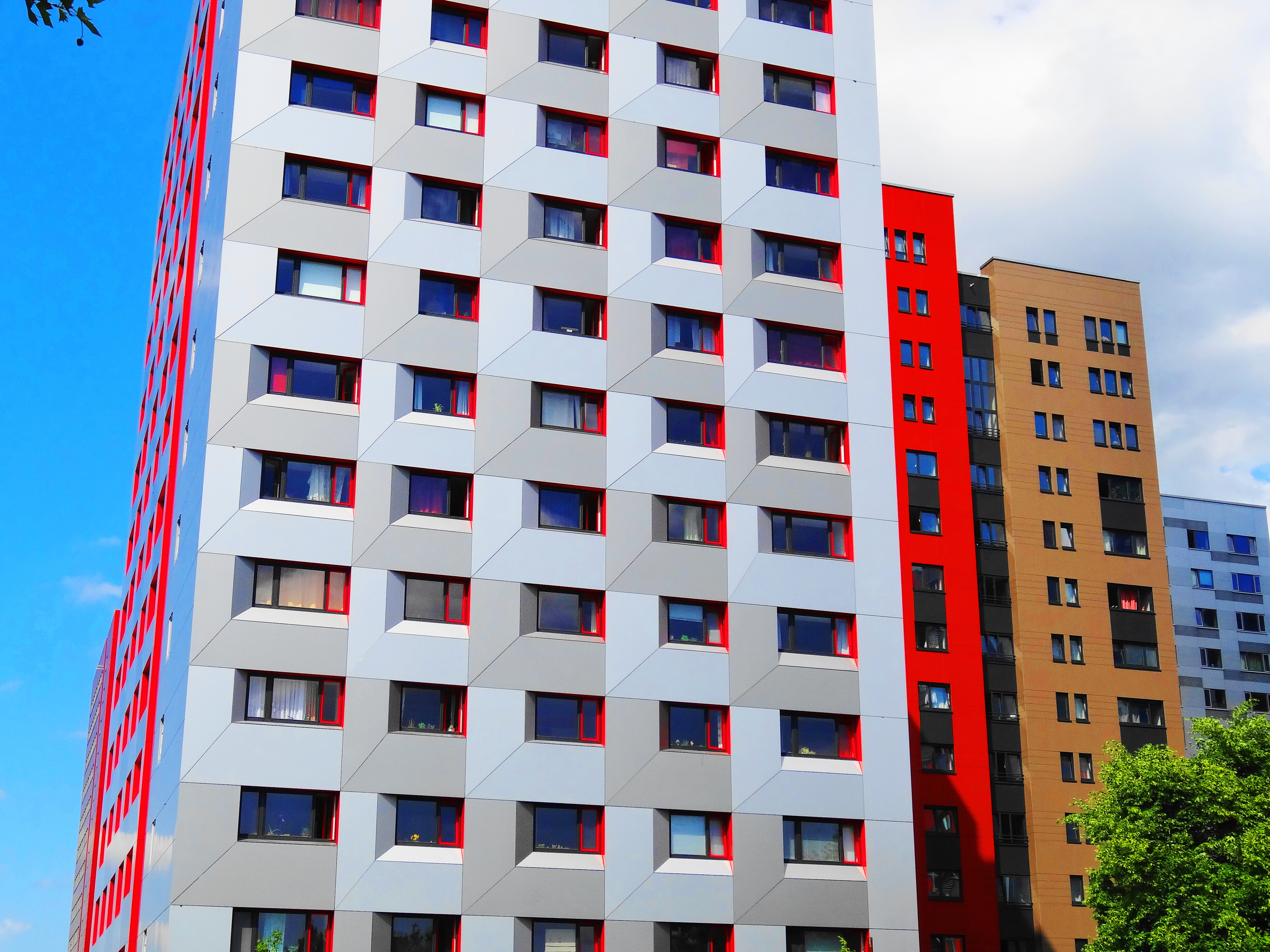 Good designed Plattenbau houses. Nevertheless the USA invented it and not the Eastern Block!